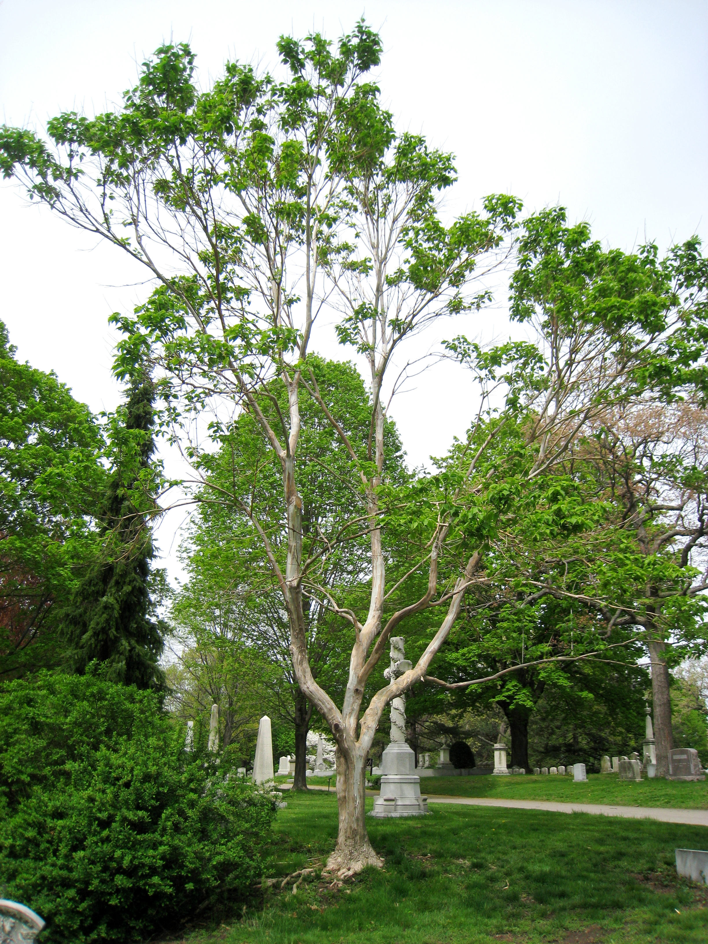 Heptacodium miconioides - specimen in Mount Auburn Cemetery, Cambridge, Massachusetts, USA.